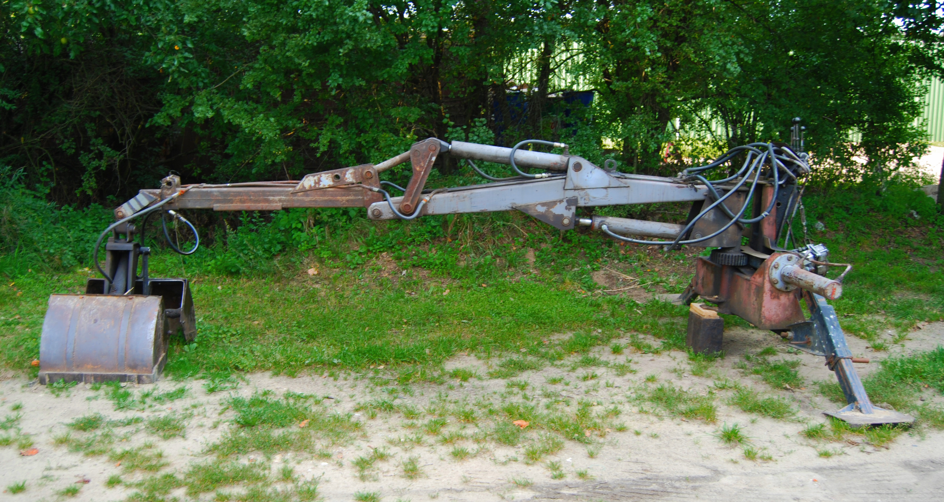 Troll ładowacz.